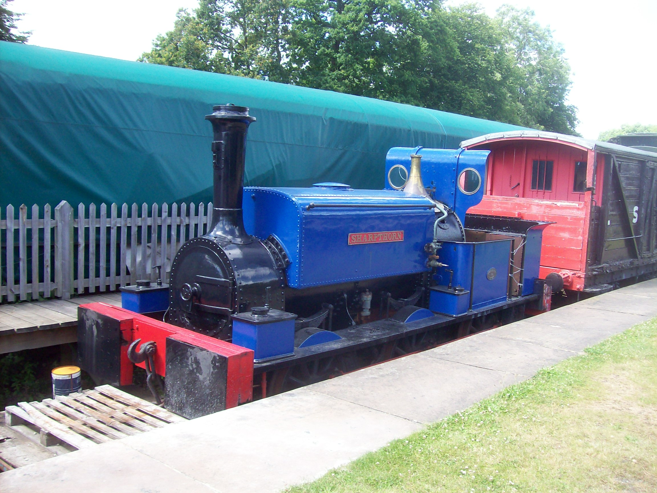 The locomotive Sharpthorn which was used in the construction of the Bluebell Railway